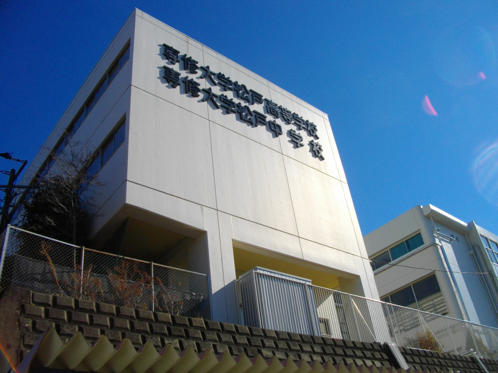 Senshu University Matsudo Junior & Senior High School